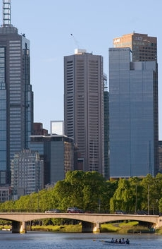 Nauru House skyscraper at Melbourne, Australia